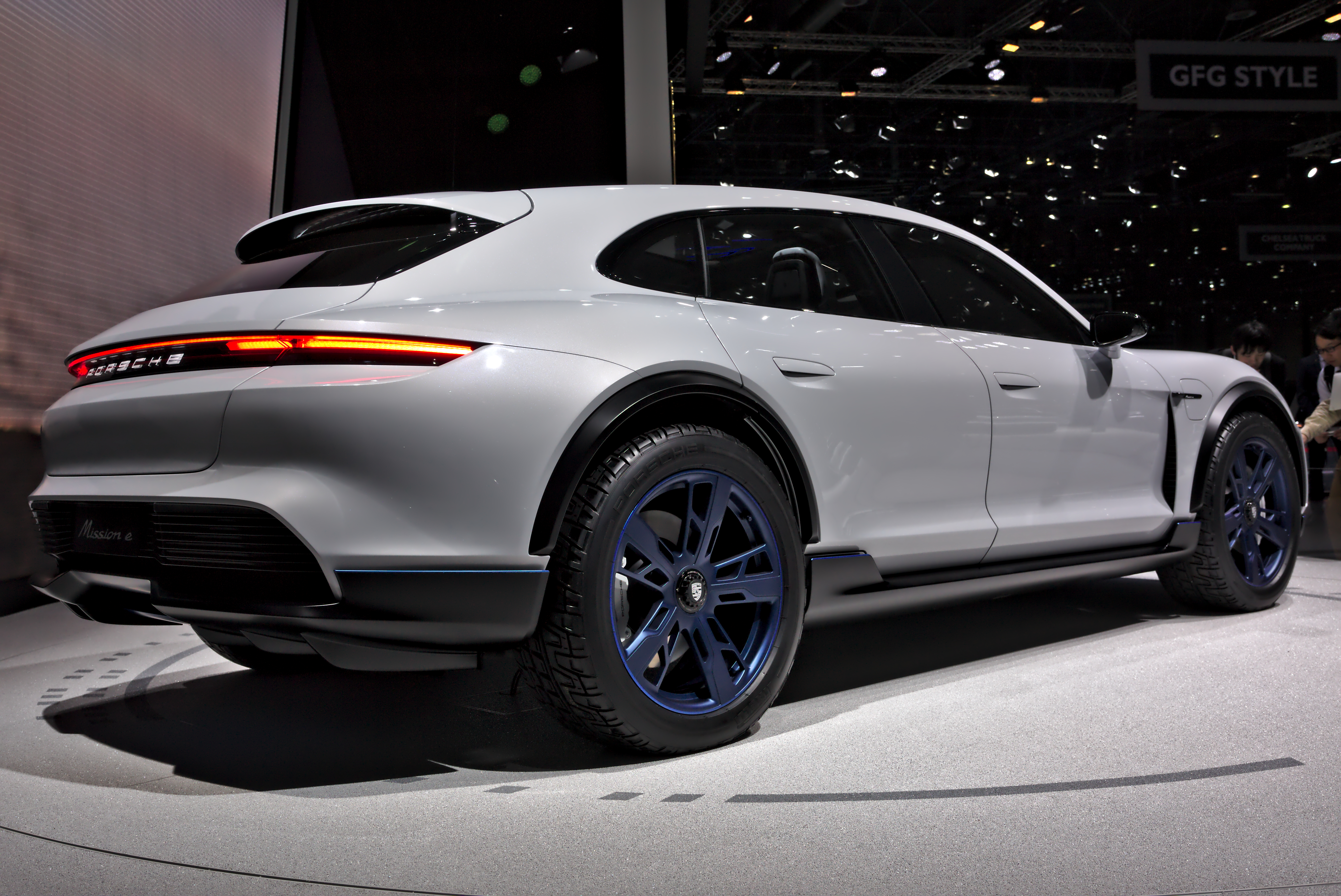 Porsche Mission E Cross Turismo at Geneva Motorshow 2018